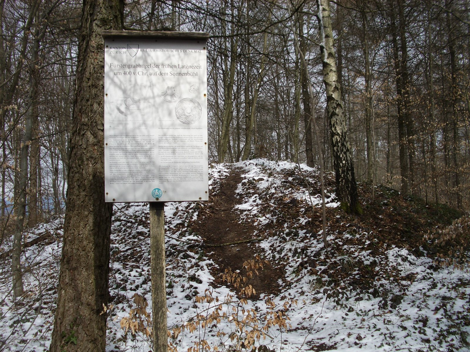 Uetliberg / Uitikon-Waldegg : 'Fürstengrabhügel Sonnenbühl' (La Tène culture)